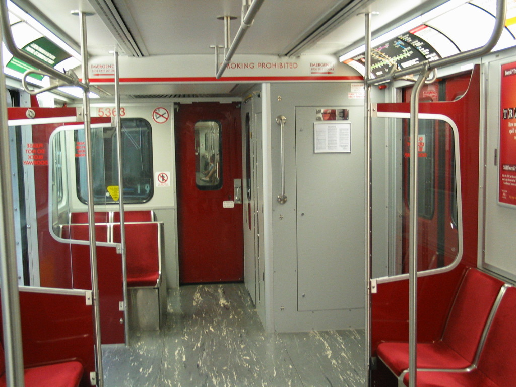 Photo by Greogry Kats (myself) The interior of T1 subway car, which is the most common in Toronto for now.